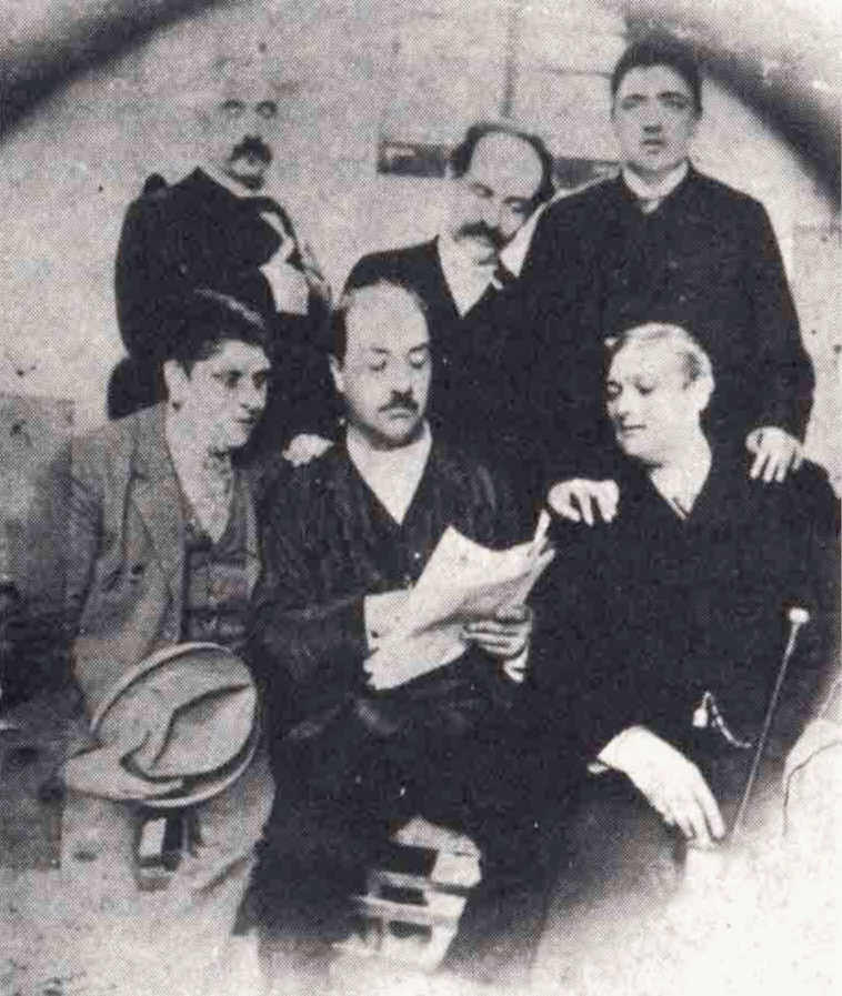 Seated left to right: Alessandro Moreschi, Antonio Cotogni, Giovanni Cesari. Standing left to right: Gaetano Capocci, Filippo Mattoni, Domenico Salvatori.